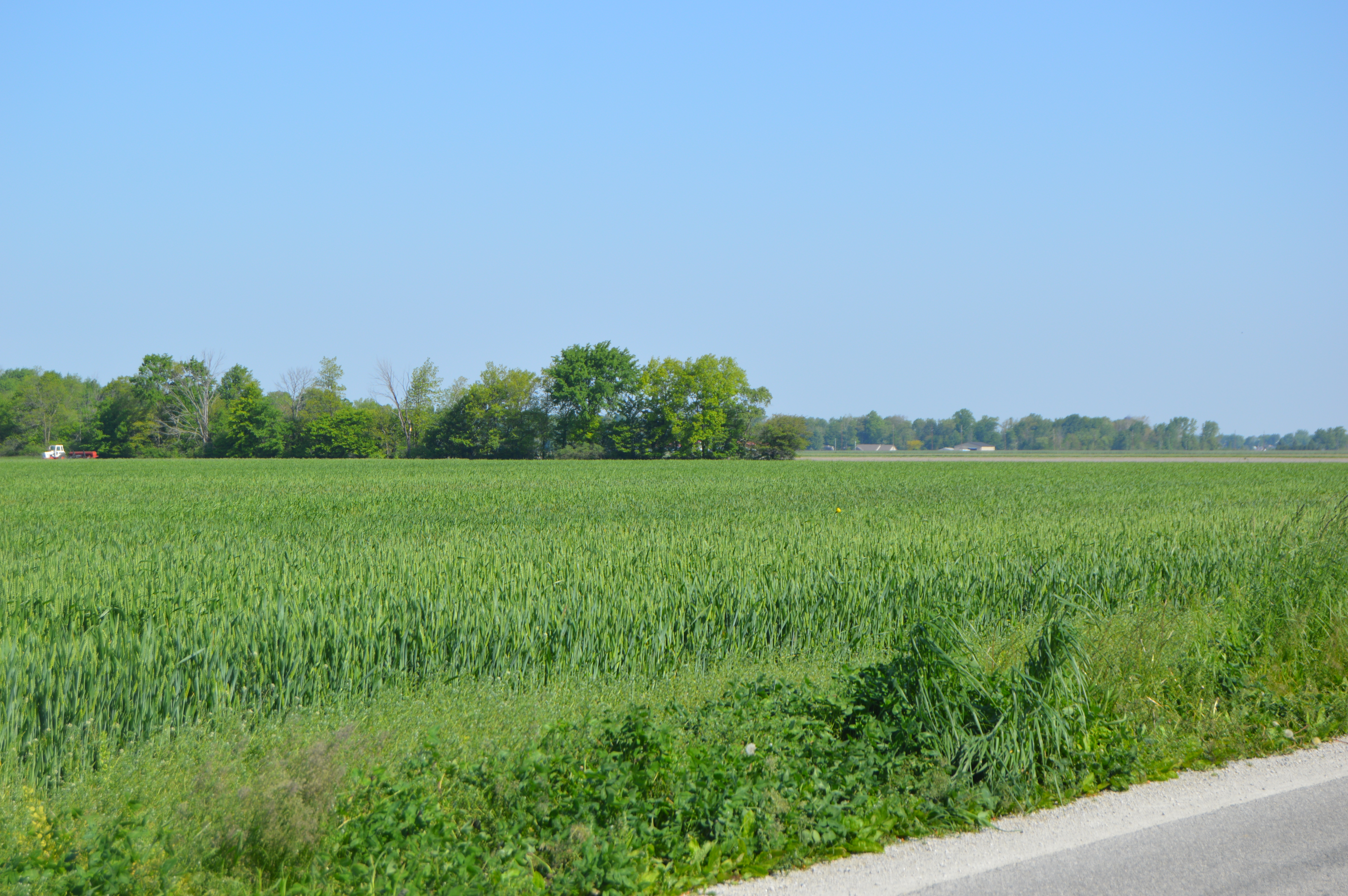 Fields on the western side of Pemberville Road west of Risingsun in Montgomery Township, Wood County, Ohio, United States.